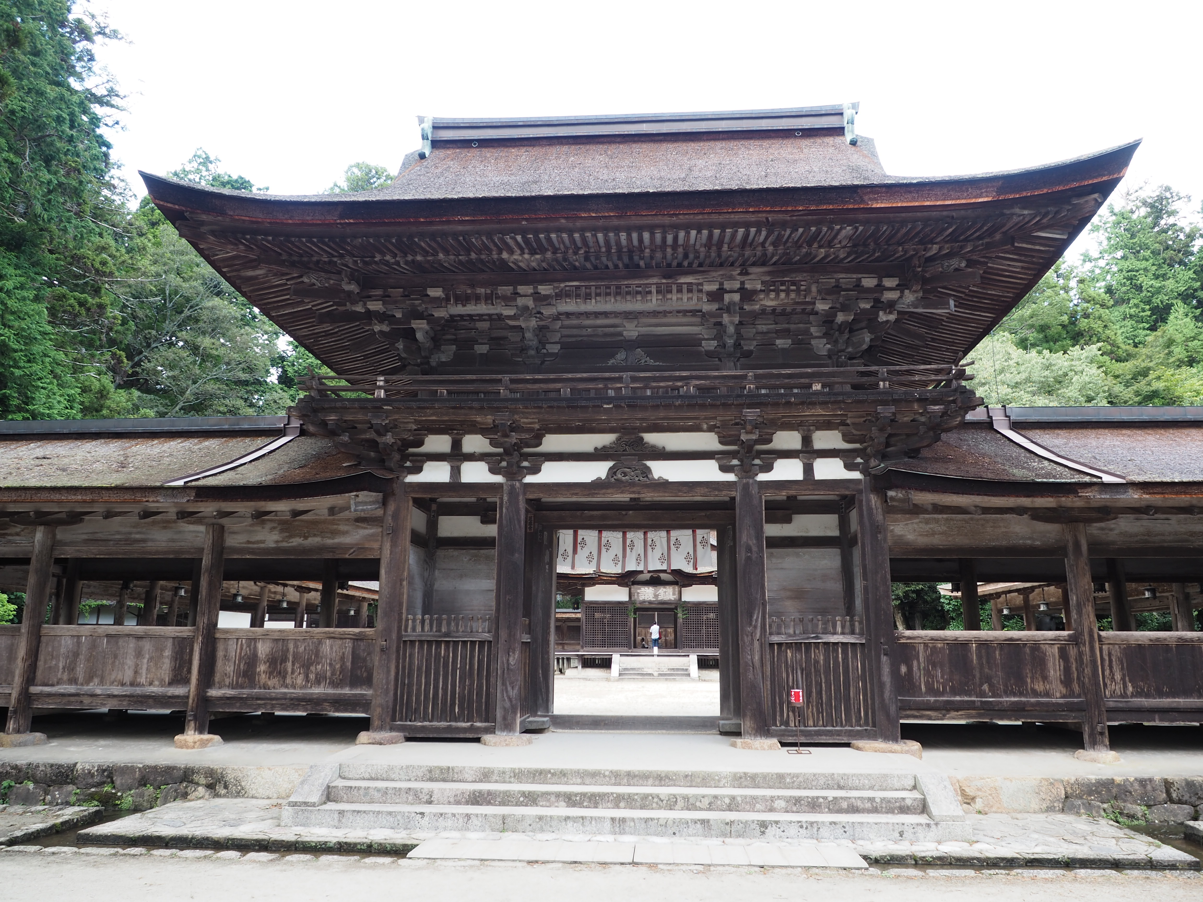 Rohmon gate at Aburahi jinja in Koka, Koka, Shiga, Japan